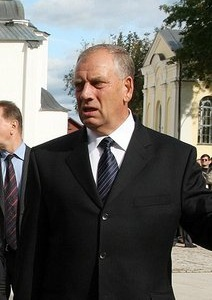 NOVGOROD. Governor of Novgorod Region Sergei Mitin.